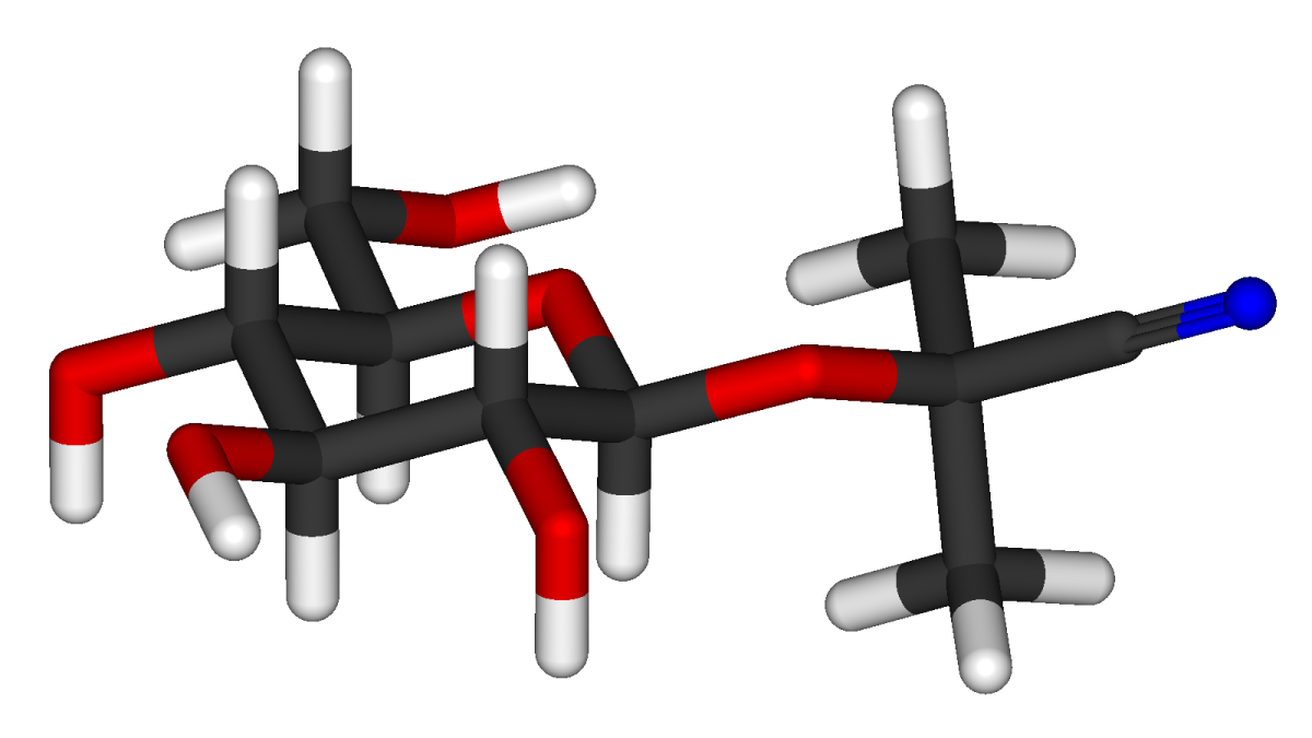 Stick model of linamarin (also known as phaseolunatin). Created using Accelrys DS Visualizer Pro 1.6 and GIMP.